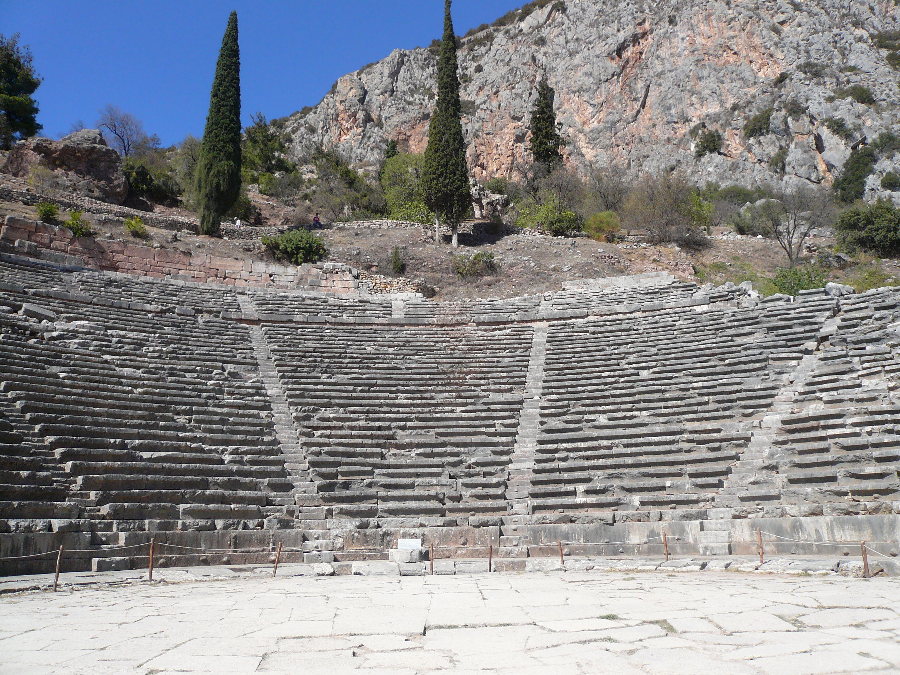 Archaeological Site of Delphi